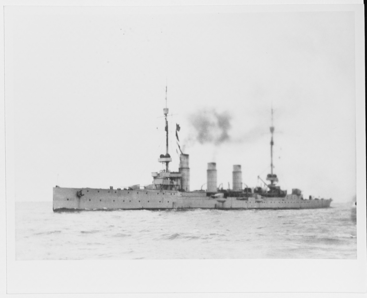 German light cruiser SMS PILLAU photographed in 1914-1916. This ship was begun as the Russian MURAVIEV AMURSKY and taken over by the German Navy from the German builder, Schichau of Danzig. (Courtesy of Master Sergeant Donald L.R. Shake, USAF 1981) Catalog #: NH 92715 Copyright Owner: Naval History and Heritage Command